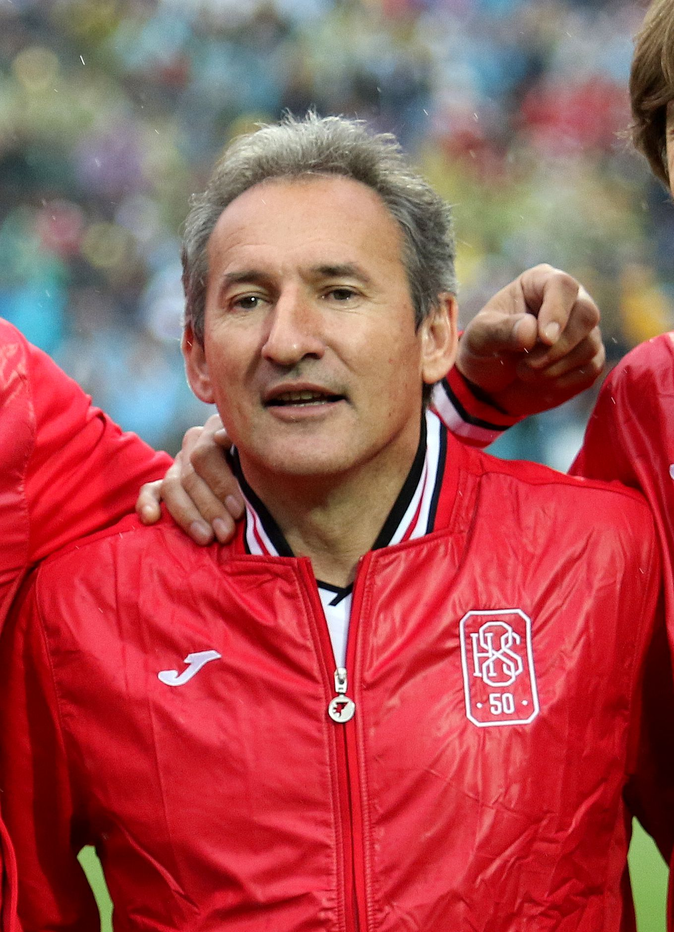 Aitor "Txiki" Begiristain Mujika (born 12 August 1964) is a retired Spanish footballer who played mainly a left winger but also as a forward, and is the director of football of English club Manchester City.